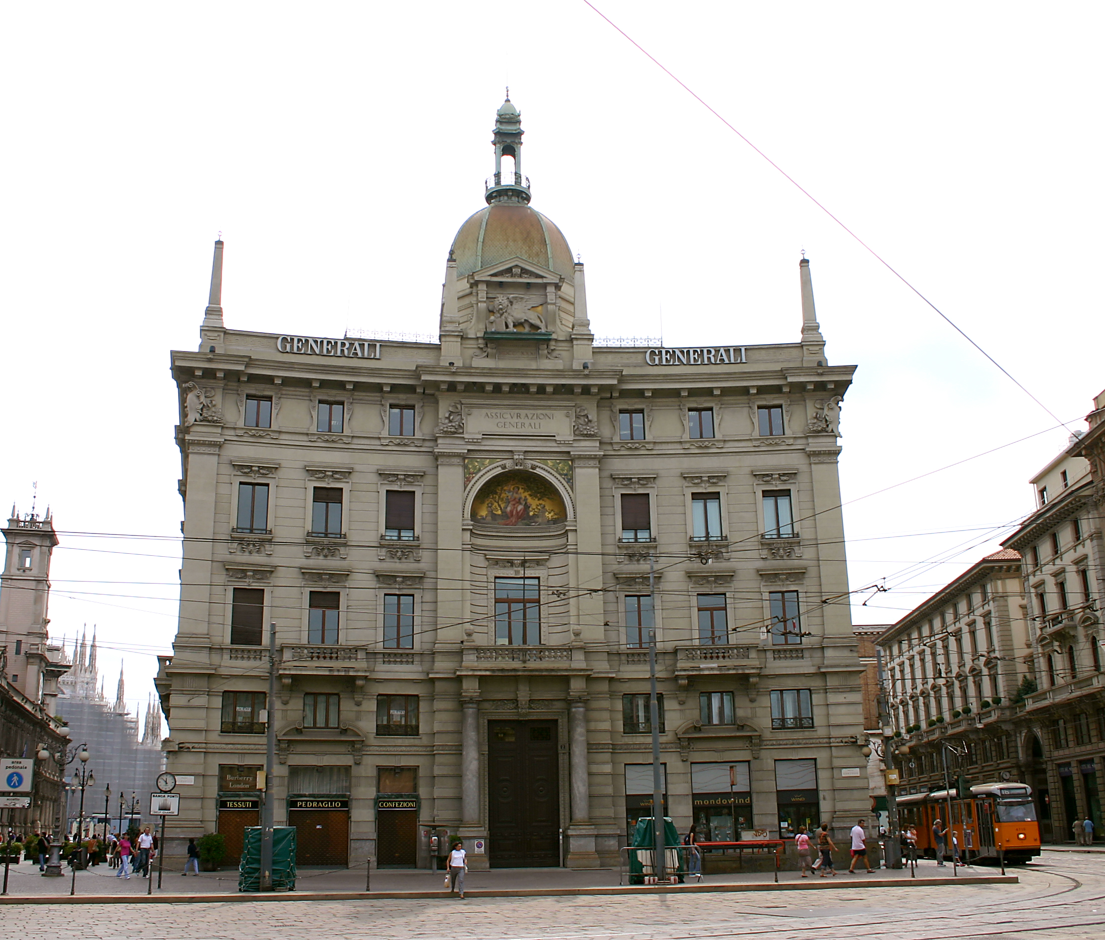 Piazza Cordusio in Milan, Italy. The headquarter of the "Assicurazioni Generali", built by Luca Beltrami in 1897/1901.